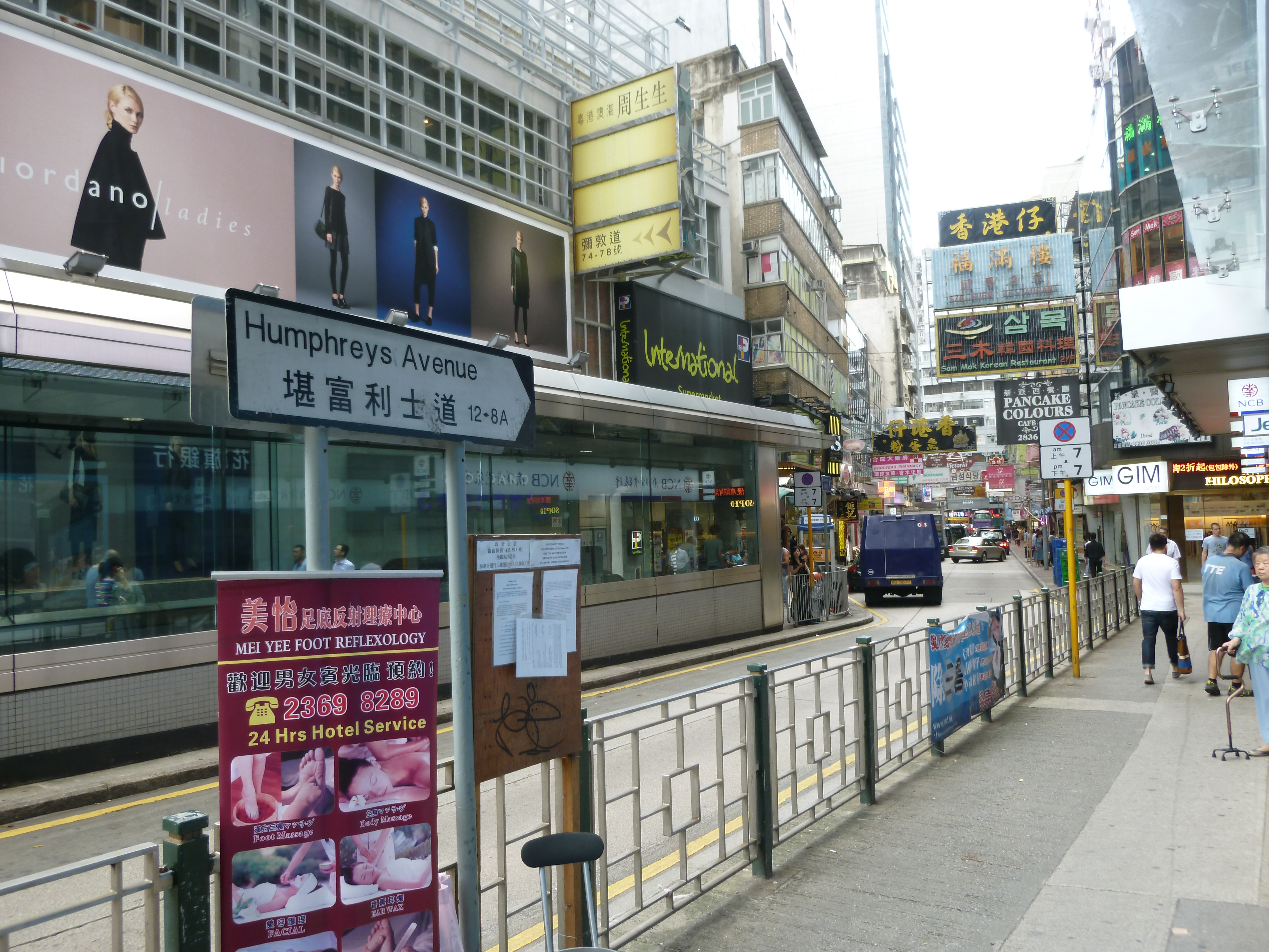 Humphreys Avenue (Tsim Sha Tsui, Kowloon, Hong Kong) 中文（香港）: 堪富利士道 (香港九龍尖沙咀)